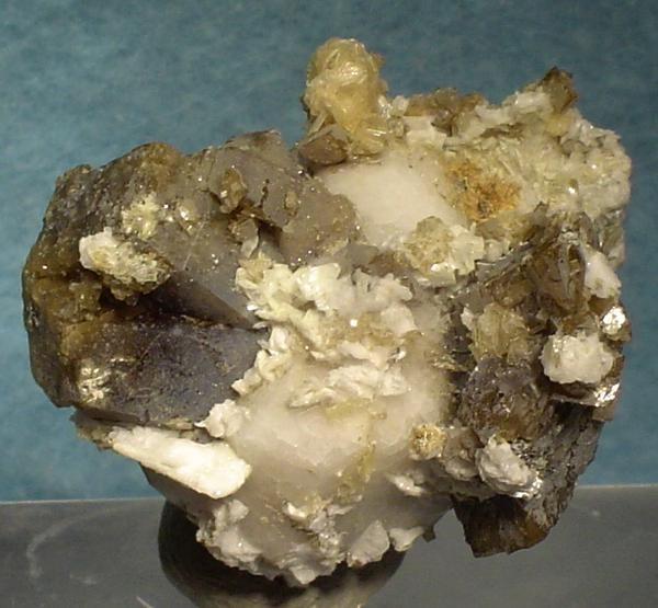 Sabinaite, Analcime, Siderite Locality: Poudrette quarry (Demix quarry; Uni-Mix quarry; Desourdy quarry), Mont Saint-Hilaire, Rouville RCM, Montérégie, Québec, Canada (Locality at ) Size: 2.9 x 2.7 x 2.7 cm. Sabinaite is rare sodium, zirconium, titanium carbonate found in only two localities worldwide, both in Canada. Tan sabinaite crystals are nicely scattered as clusters and isolated crystals on the combination matrix of siderite and porcelaneous analcime crystals.